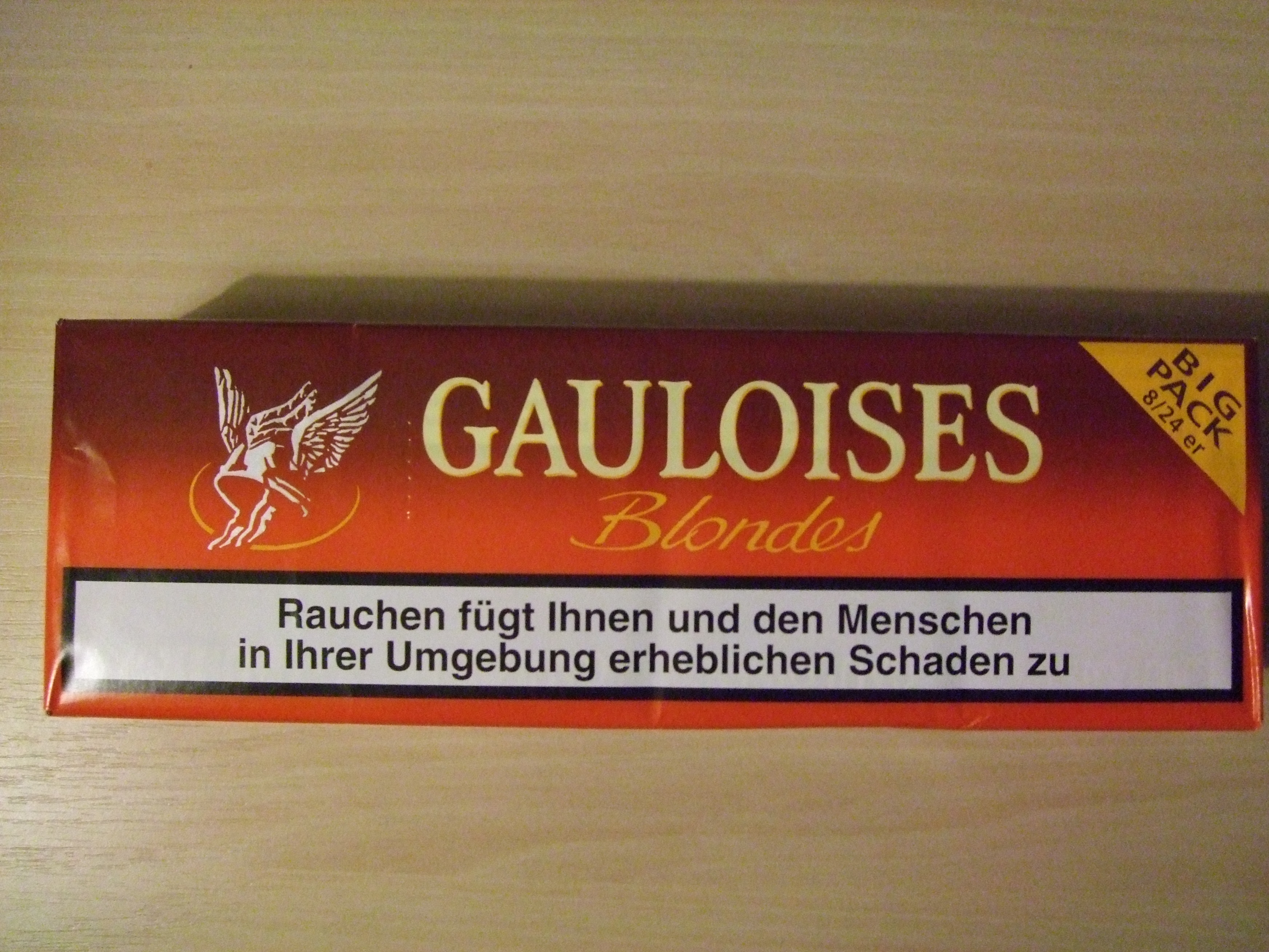 Carton of German Big Pack (8x24) Gauloises cigarettes